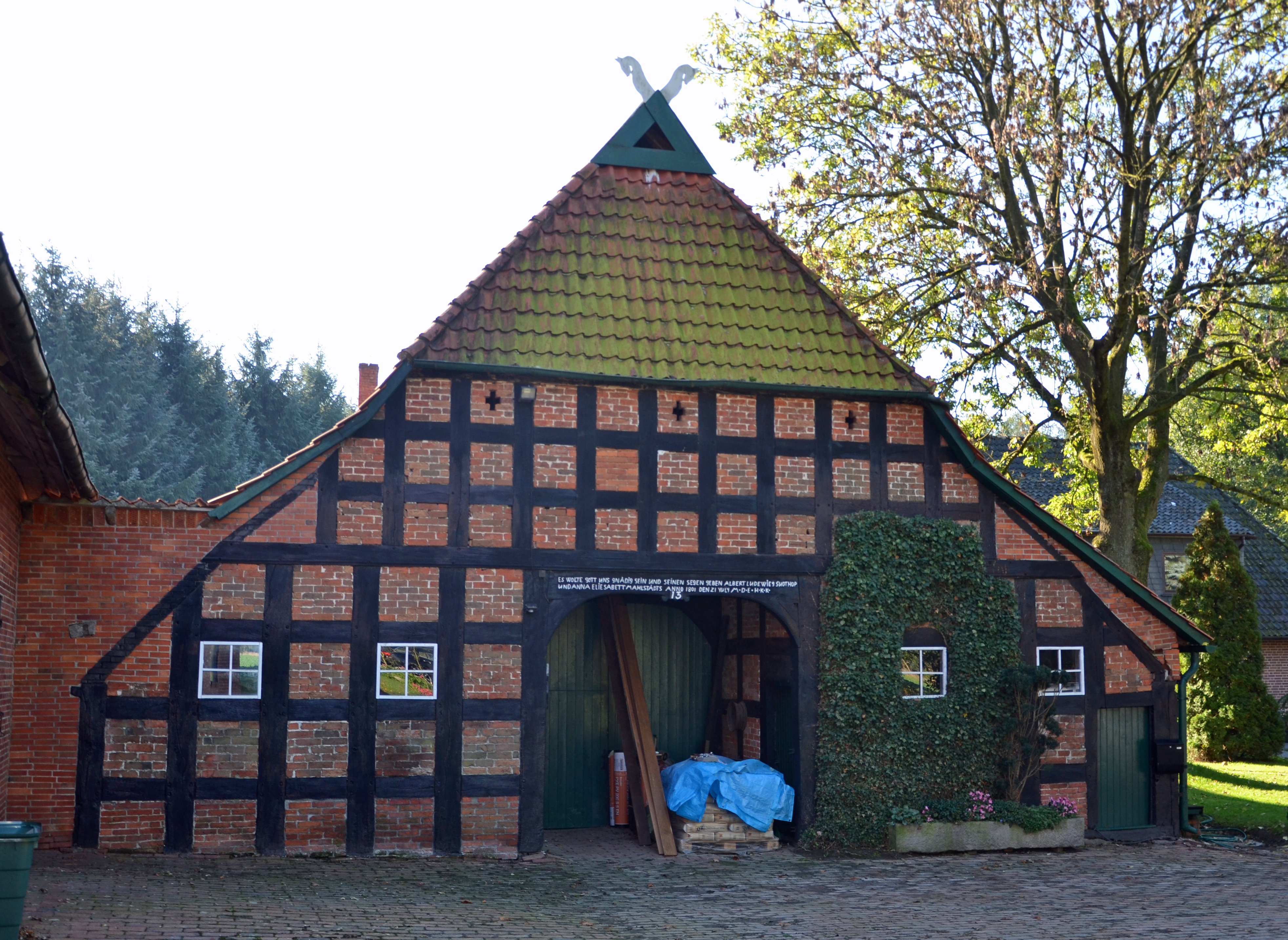 Cultural heritage monument in Bassum